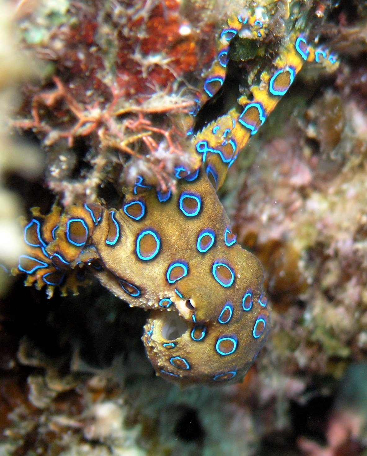 Image of a Greater blue-ringed octopus. Hapalochlaena lunulata. Taken at Tasik Ria, North Sulawesi, Indonesia.